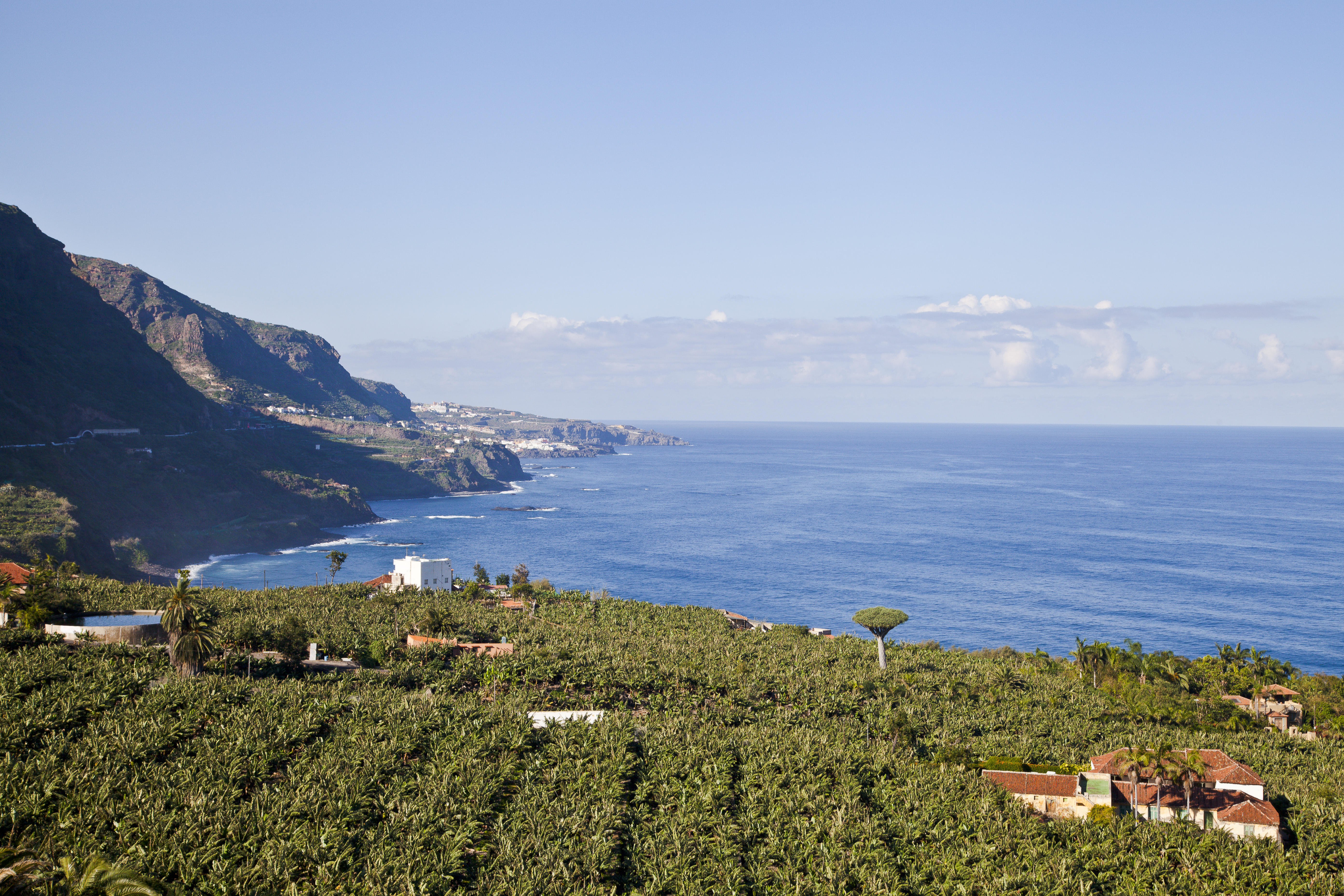 View from San Pedro Lookout, Los Realejos, Tenerife, Spain